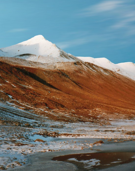 Originally from Gebruiker:Idéfix